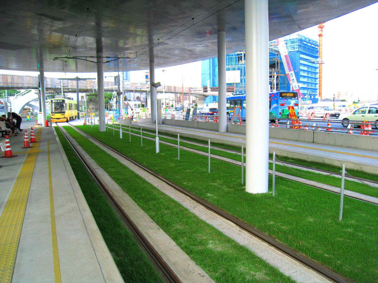 Kumamoto City Tram Kumamoto Ekimae tram stop, Kumamoto, Kumamoto, Japan